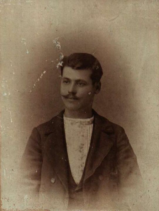 Lazar Tomov (1878-1961)